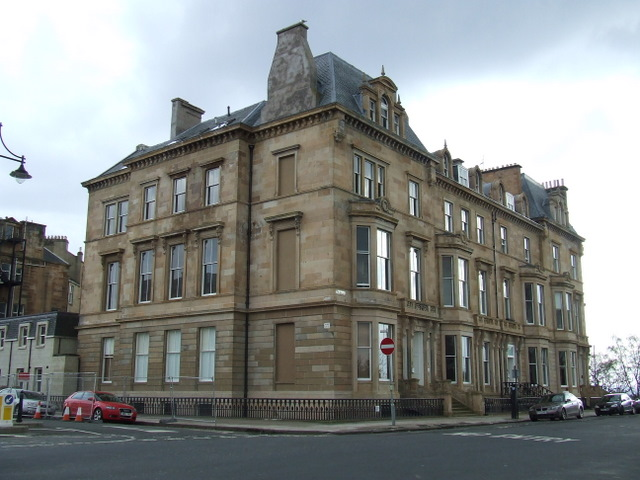 Park Terrace On a hill overlooking Kelvingrove Park. Park Terrace is to the right, Park Gate to the left.